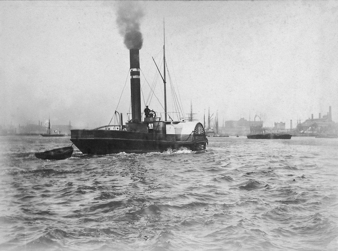 Reproduction ID: H0990 Maker: D M Duggan Thacker Date: about 1884 Thacker Collection